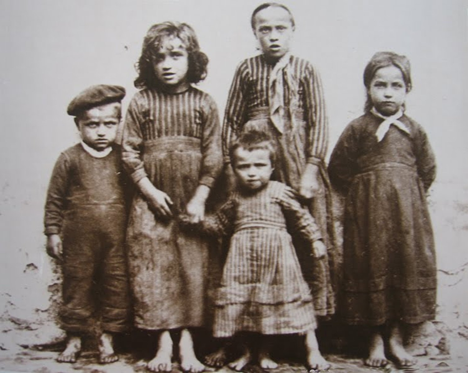 Children of the people under the Second French Empire.